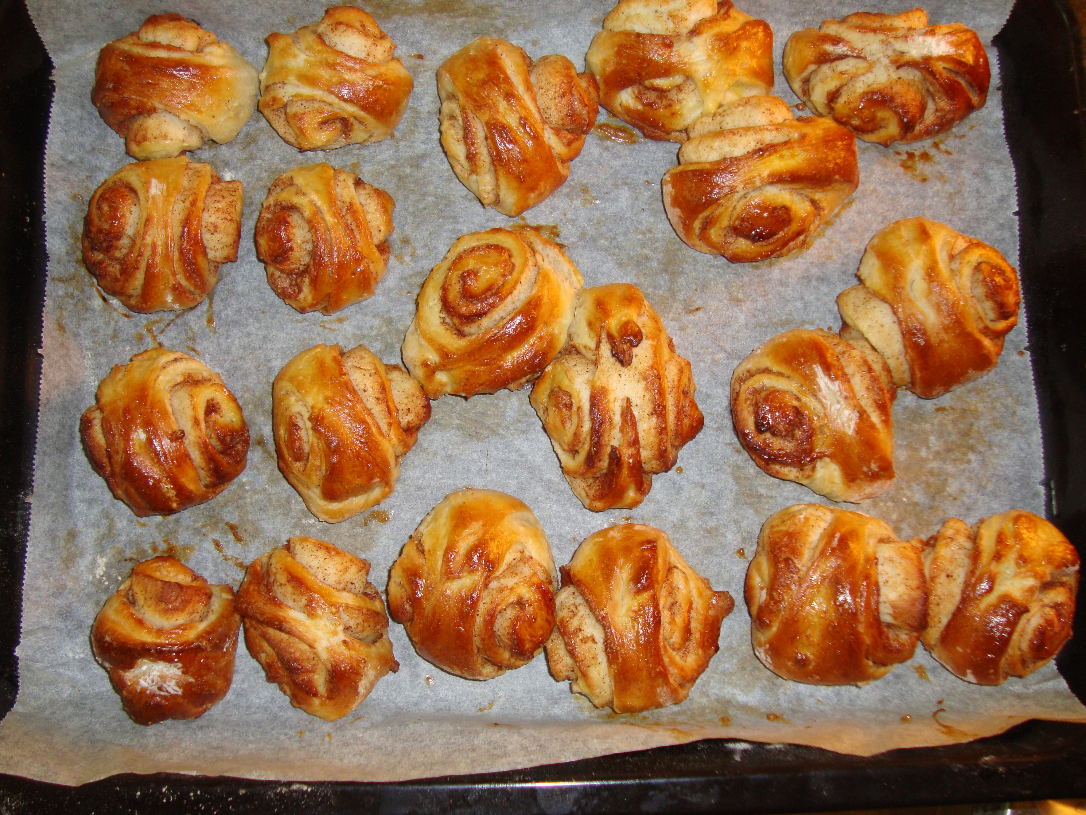 Finnish cinnamon rolls out of the oven.